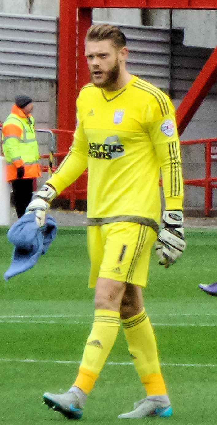 Dean Gerken playing for Ipswich Town at Nottingham Forest on 24 October 2015